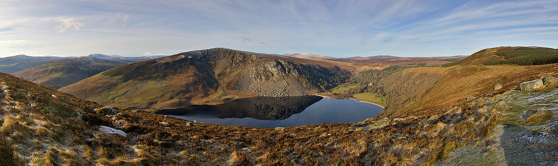 A panoramic view of Lough Tay in County Wicklow in Ireland.